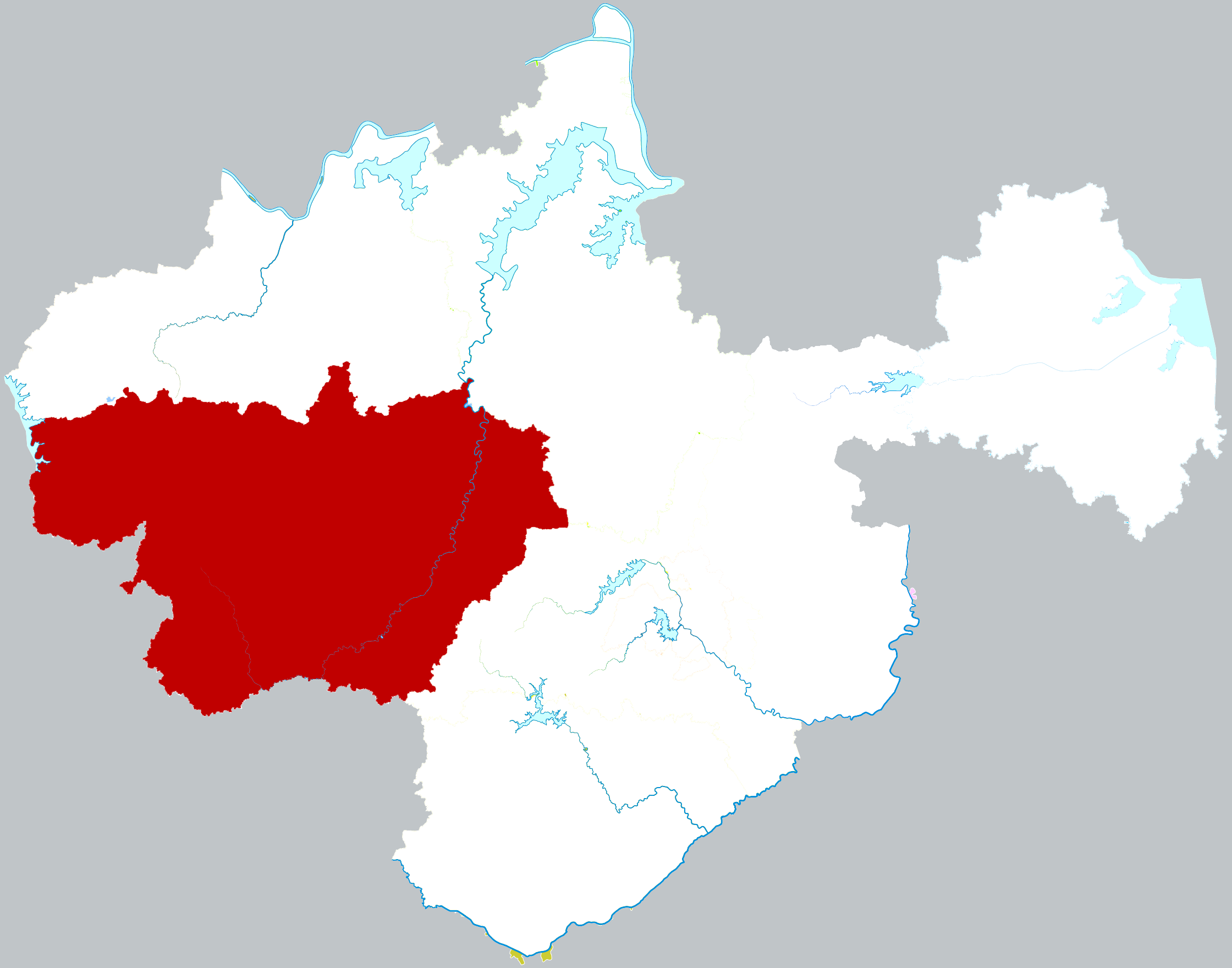 Location of Dingyuan county in Chuzhou city, China